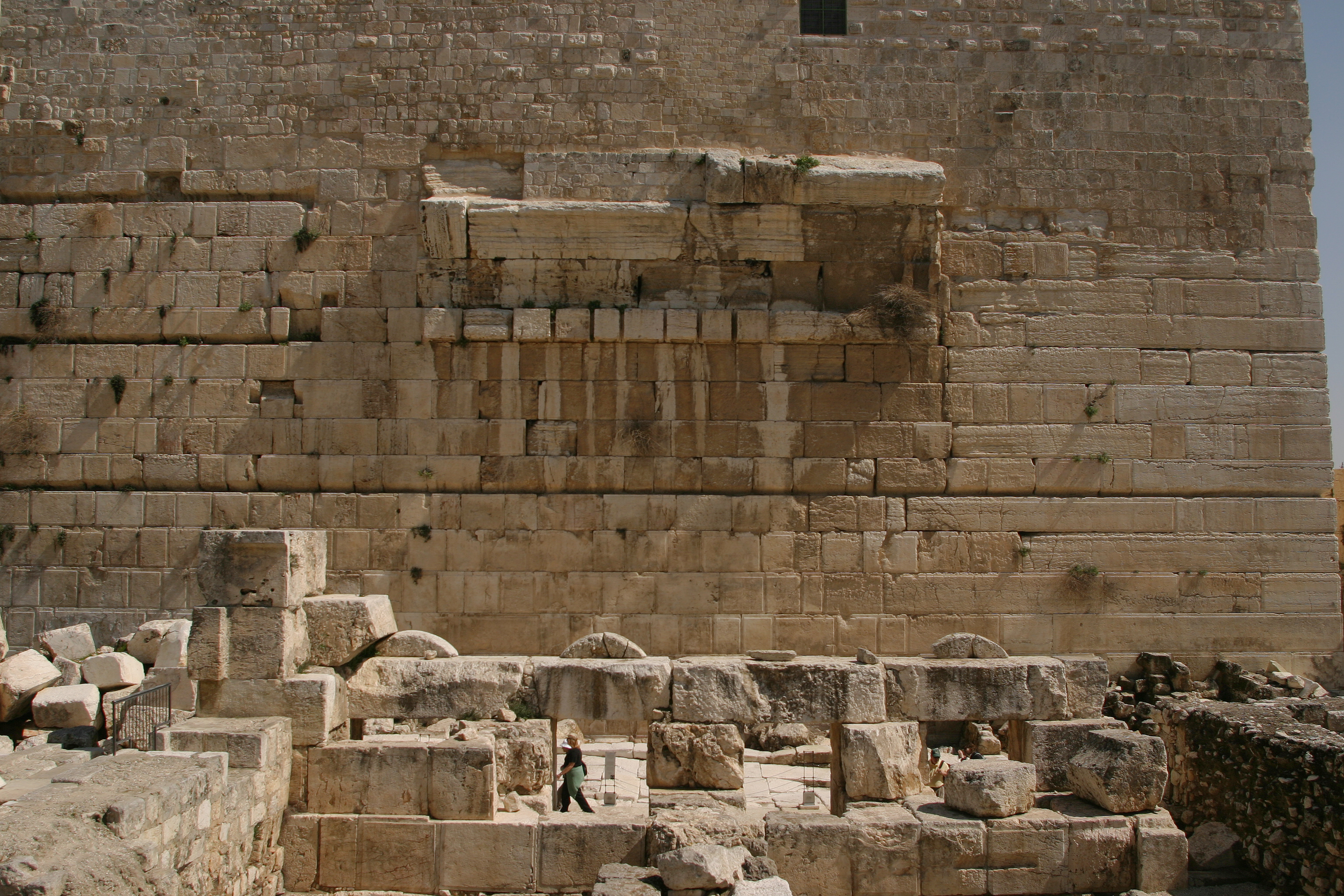 The remains of Robinson's Arch on the western side of the Temple Mount. Build by King Herod in 37 B.C.E. Jerusalem, Israel/Palestine, March 2007